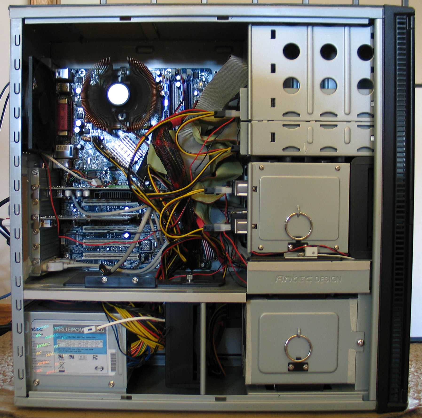 The Antec P180, a popular computer case, suitable for use as a silent PC.